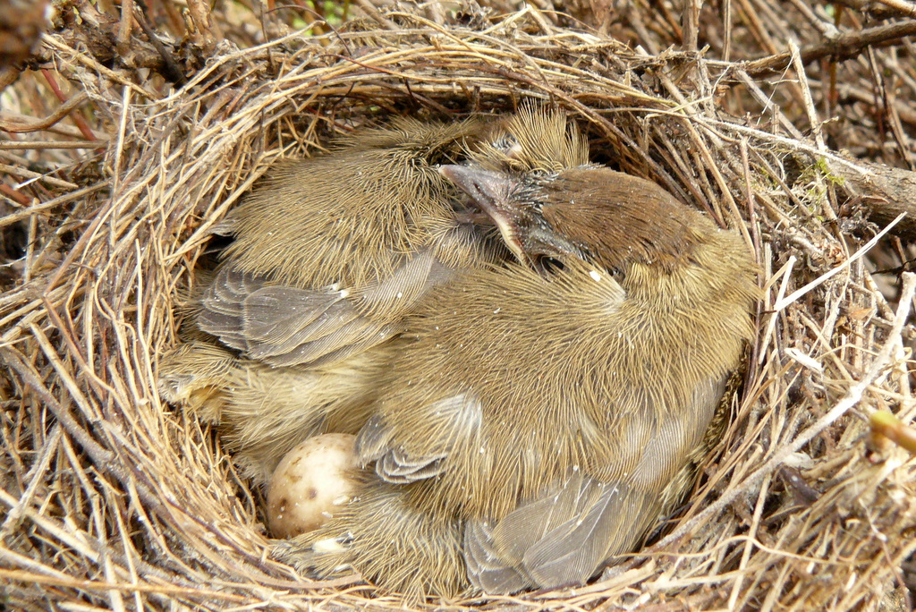 Sylvia atricapilla